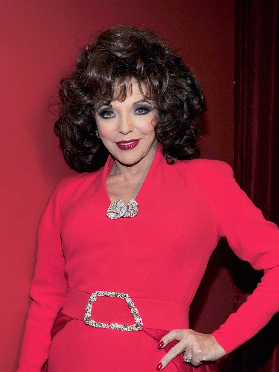 Joan Collins in a gown by Stéphane Rolland, 2010 The Heart Truth® is a national awareness campaign for women about heart disease sponsored by the National Heart, Lung, and Blood Institute (NHLBI), part of the National Institutes of Health, U.S. Department of Health and Human Services (HHS). The Red Dress®, introduced by the NHLBI in 2002, is the national symbol for women and heart disease awareness. Visit for information on women and heart disease. Joan Collins== HEART TRUTH RED DRESS 2010 Collection== NY Public Library, NYC== February 11, 2010== © Patrick McMullan== Photo - PATRICK MCMULLAN/PatrickMcMullan.com== == ®, TM The Heart Truth, its logo and The Red Dress are trademarks of HHS. Participation by Mercedes-Benz Fashion Week, Diet Coke, Swarovski, Tylenol, St. Joseph's Aspirin, Bobbi Brown, and Brian Atwood does not imply endorsement by HHS.